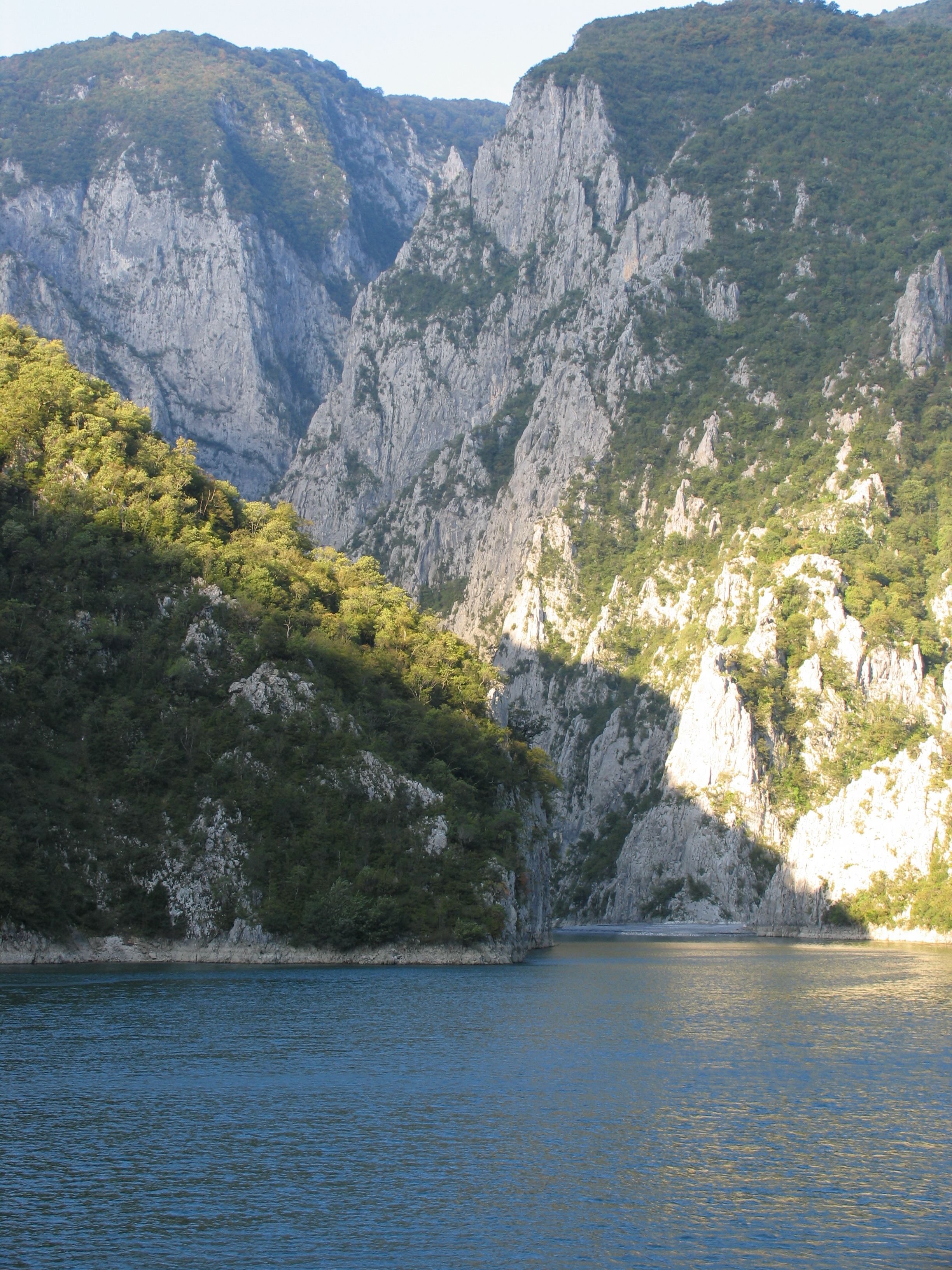 Lake Komani created by a dam on the Drini river, northern Albania.